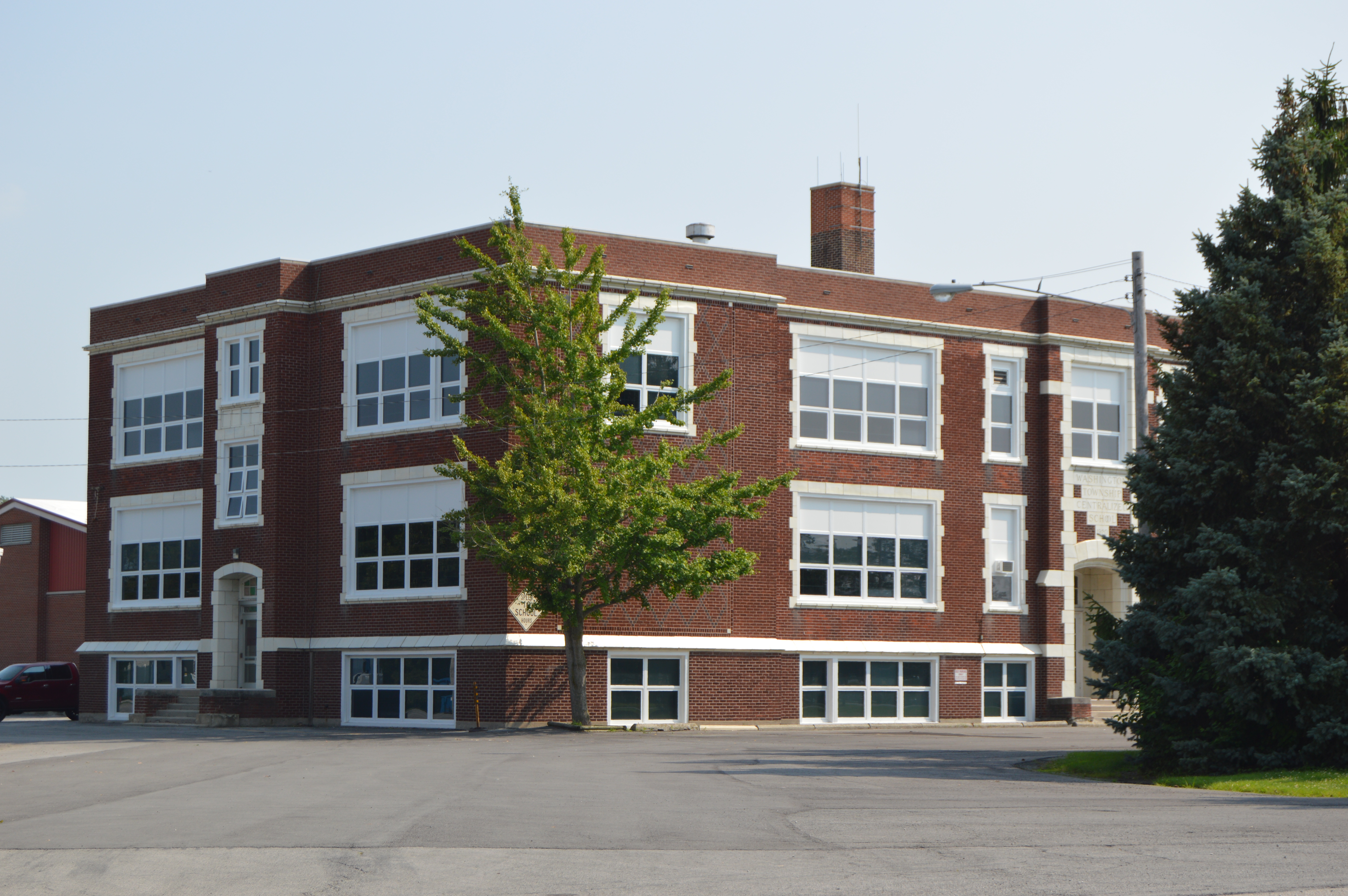 Front of Arcadia High School, located at 19033 Fremont Street (State Route 12) in Arcadia, Ohio, United States.